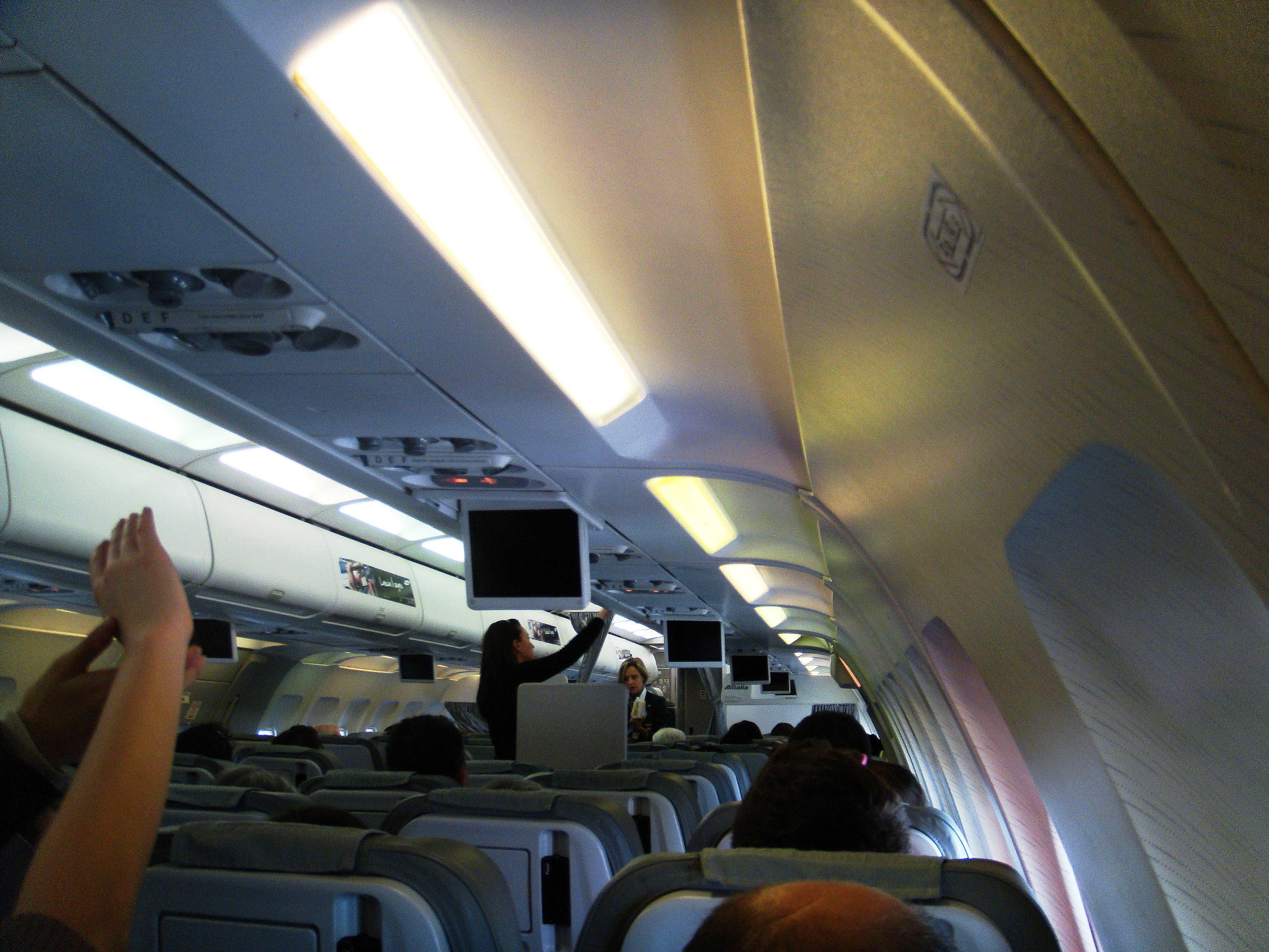 Alitalia Airbus A321 interior